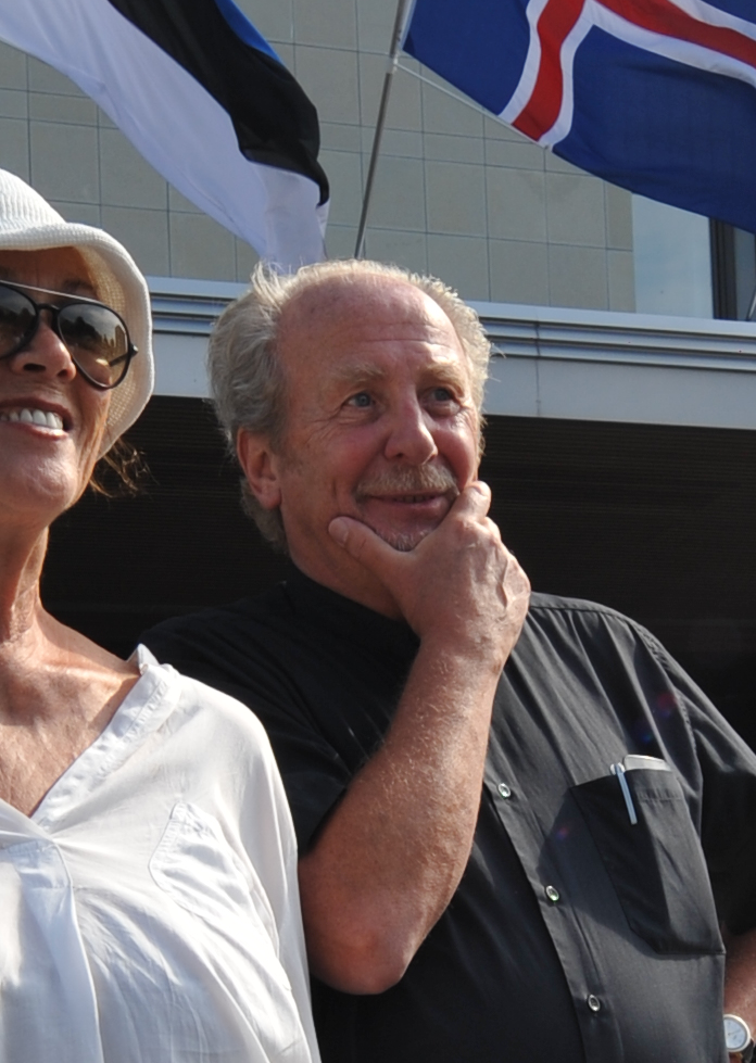 Endine Islandi välisminister Jón Baldvin Hannibalsson uudistamas toiduturgu Islandi väljakul